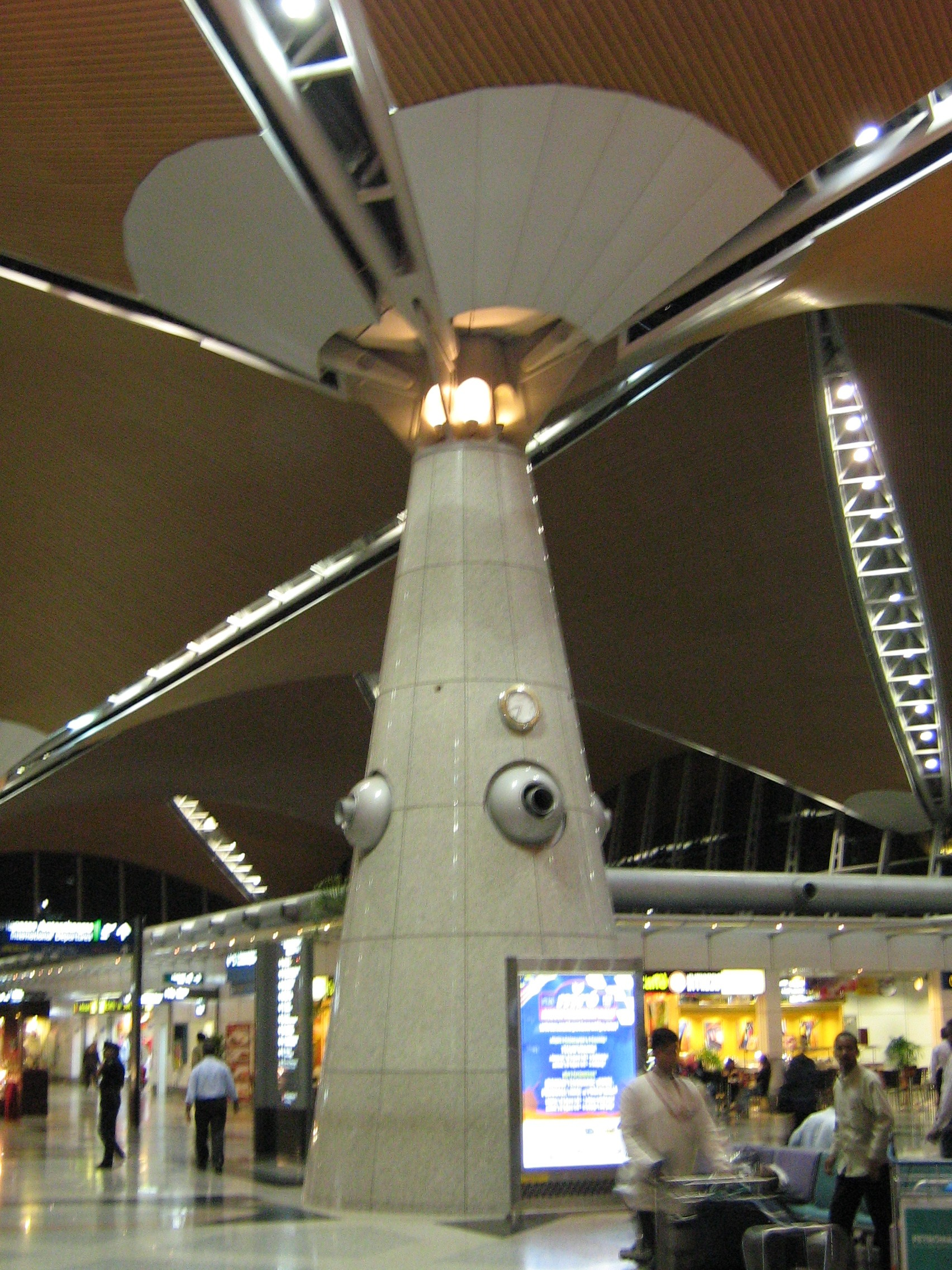 Satellite at KLIA